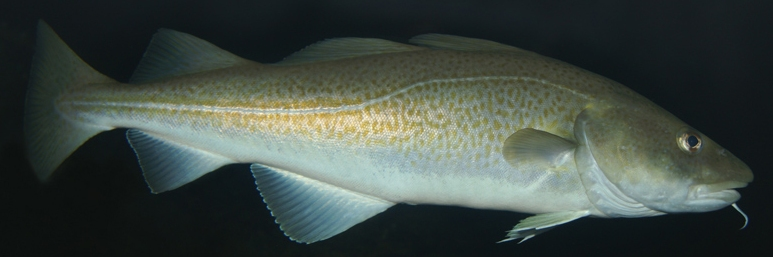 Kabeljauw, Atlantic Cod, Gadus morhua